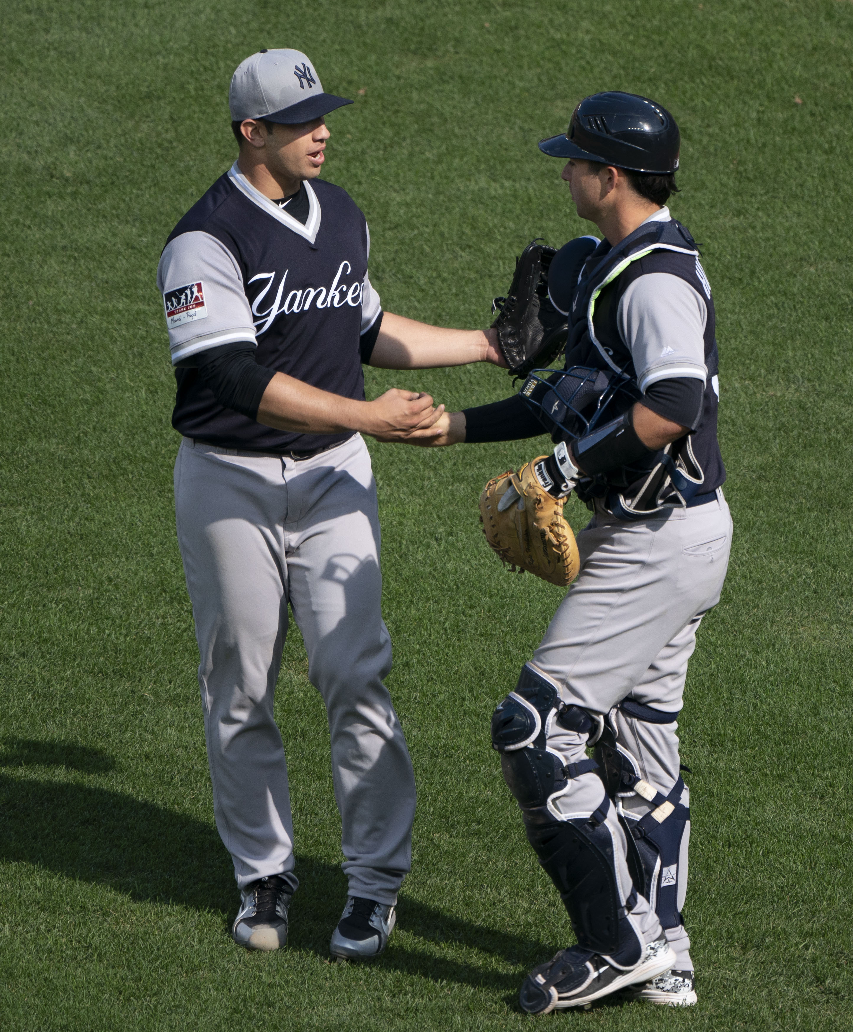 New York Yankees pitcher Luis Cessa is congratulated by catcher Kyle Higashioka after a victory against the Baltimore Orioles at Orioles Park at Camden Yards on August 25, 2018 in Baltimore, MD.